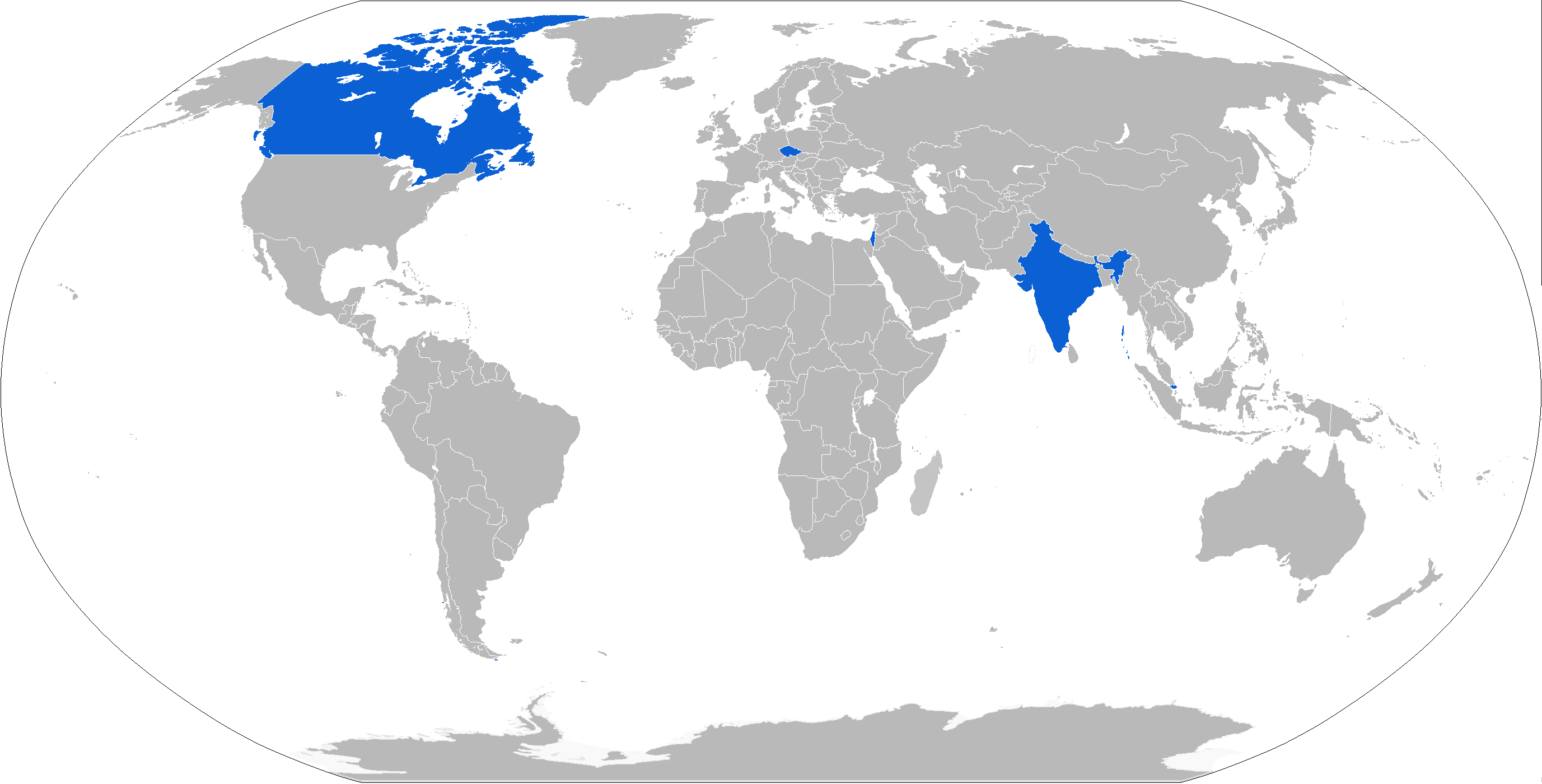 Map of EL/M-2084 operators (blue).